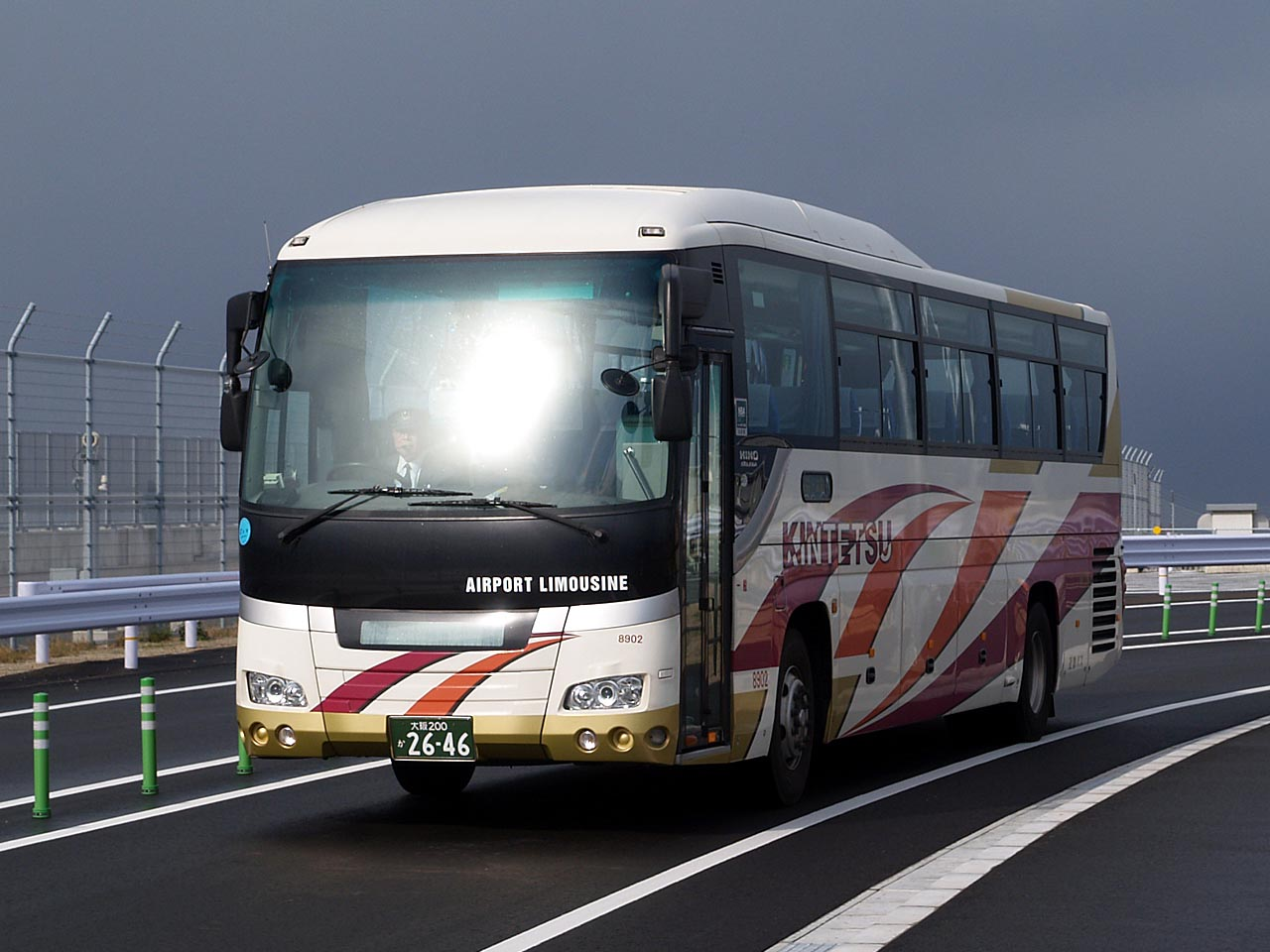 Fleet of Kintetsu Bus, for Airport shuttle. Model: Hino Selega PKG-RU1ESAA License plate: OSO200 KA2646 Place: Kansai International Airport